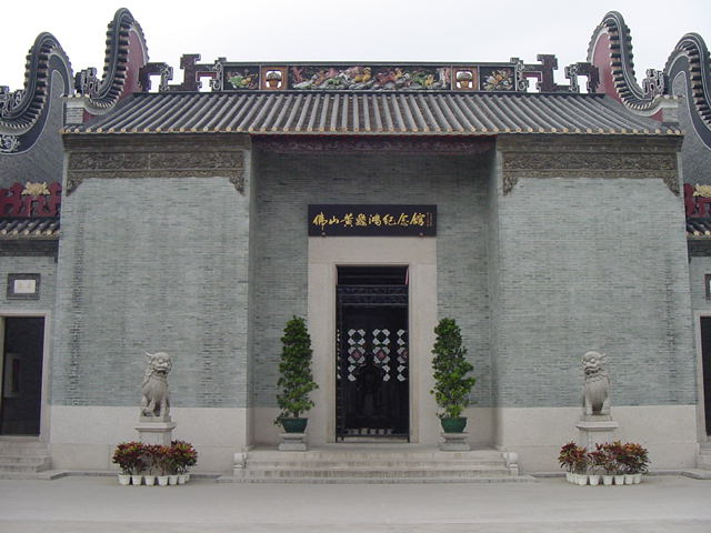 Entrance of Foshan Wong Feihung Musium